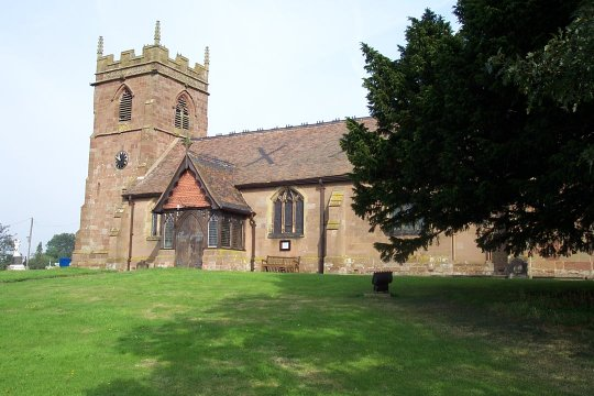 St Michael and All Angels parish church, Lilleshall, Shropshire, seen from the south